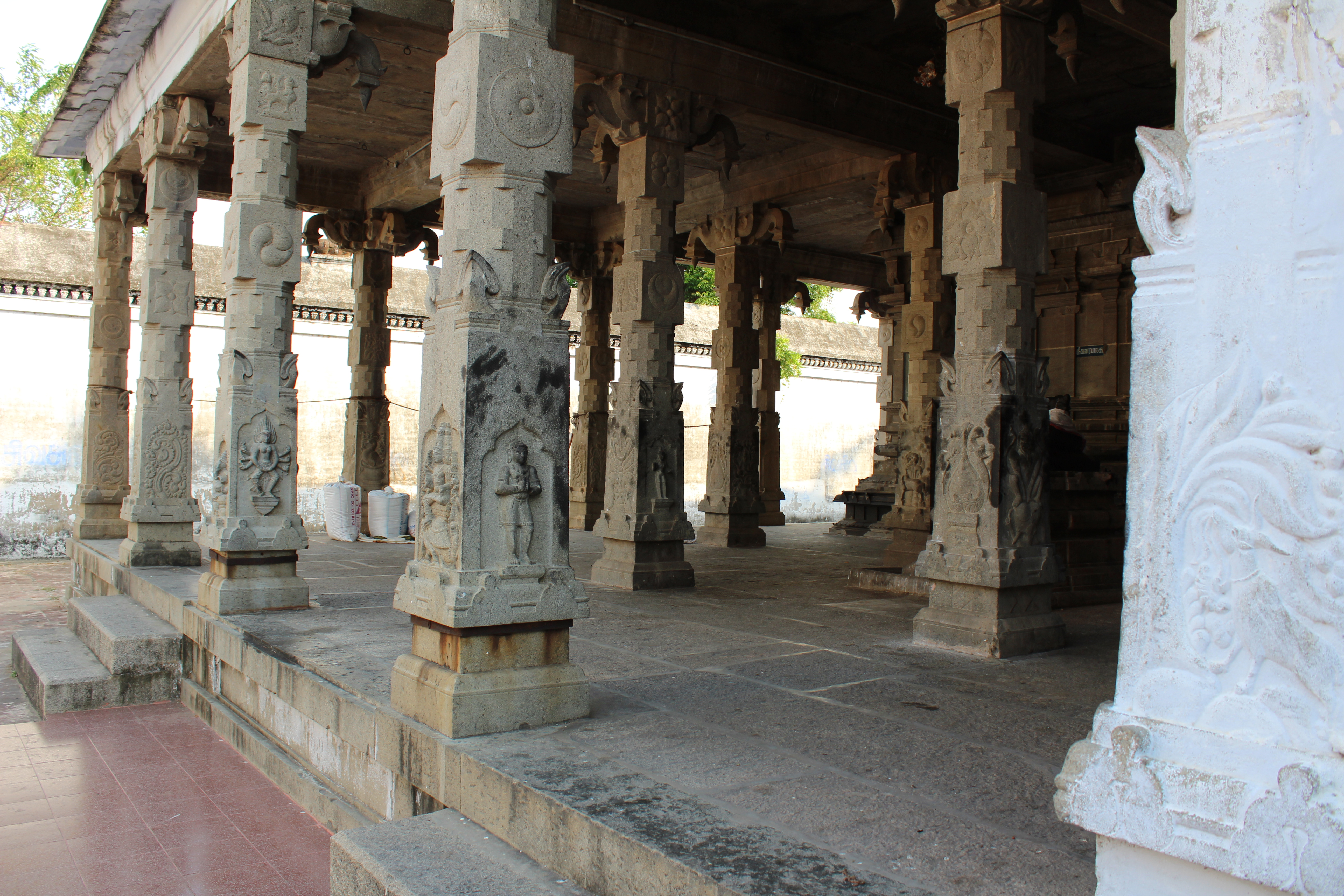 Thirunelvayil